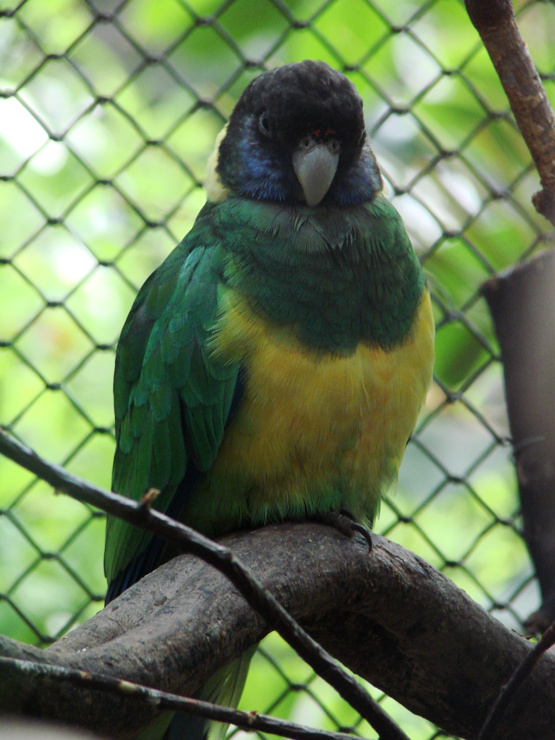 Picture taken in the zoo of Wrocław (Poland): Barnardius zonarius (Shaw, 1805)